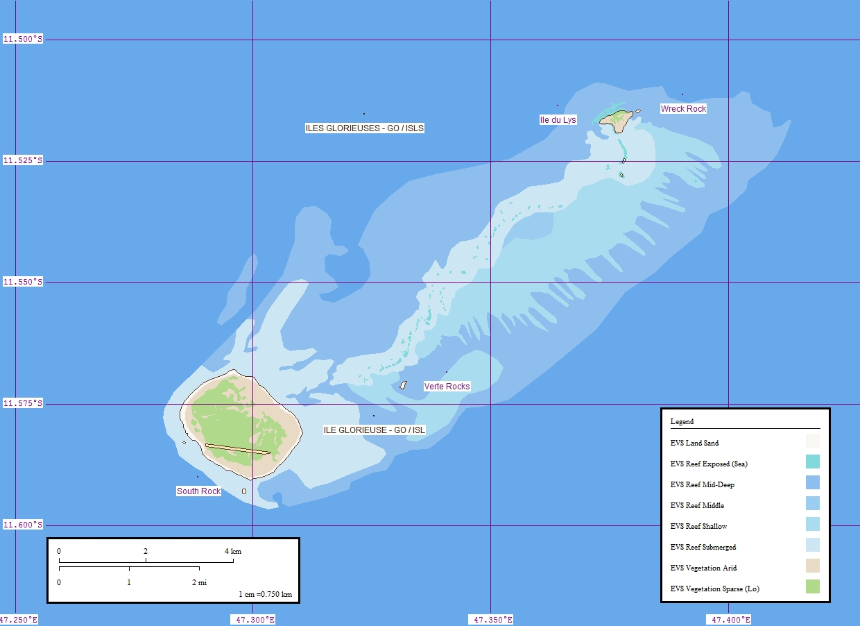 Map of Glorioso Islands (Îles Glorieuses), French Scattered Islands in the Indian Ocean